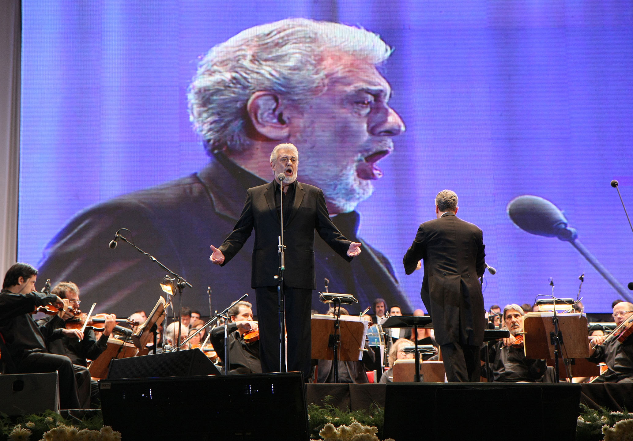 Placido Domingo sings during a concert at the Obelisco in Buenos Aires in 2011. Eugene Kohn (to the right of Domingo) conducts.